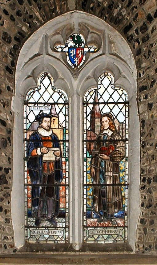 The Church of St Andrew, Bemerton, is known as George Herbert’s Church. It is in the parish of Bemerton. In George Herbert's day the other little church in the area was St Peter's Fugglestone which now comes within Wilton parish although in Herbert's day there was the one parish of Bemerton-cum-Fugglestone. On the 14th June, 1934, the stained glass in the West window, as shown here, which had been given by admirers of George Herbert, from all over the world, was unveiled by the Bishop of Salisbury (Dr St.Clair Donaldson). It depicts the Poet and his great friend Nicholas Ferrar. Caroline Townshend and Joan Howson were responsible for the window’s design and execution.